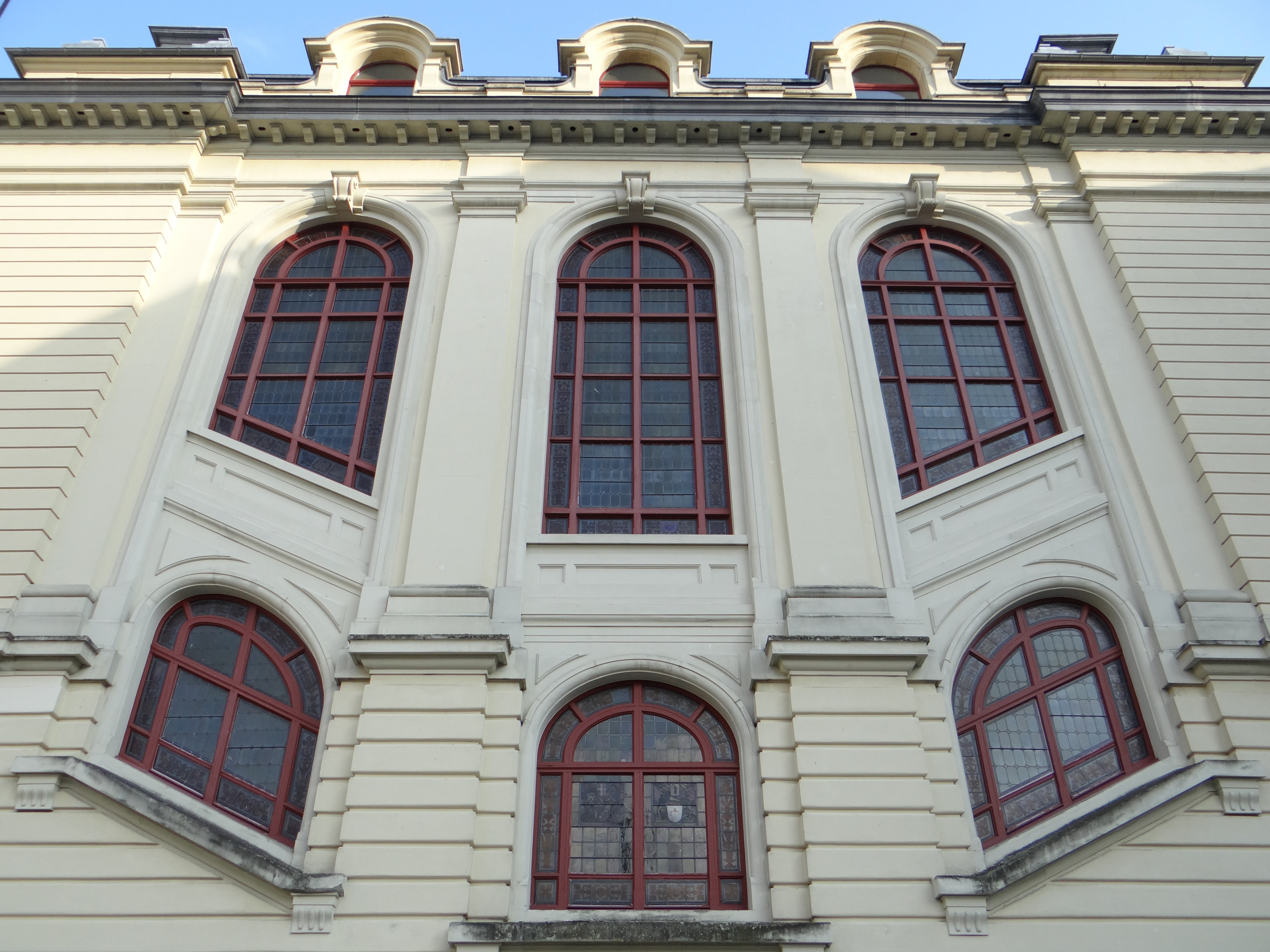 Main building of the University of Bern